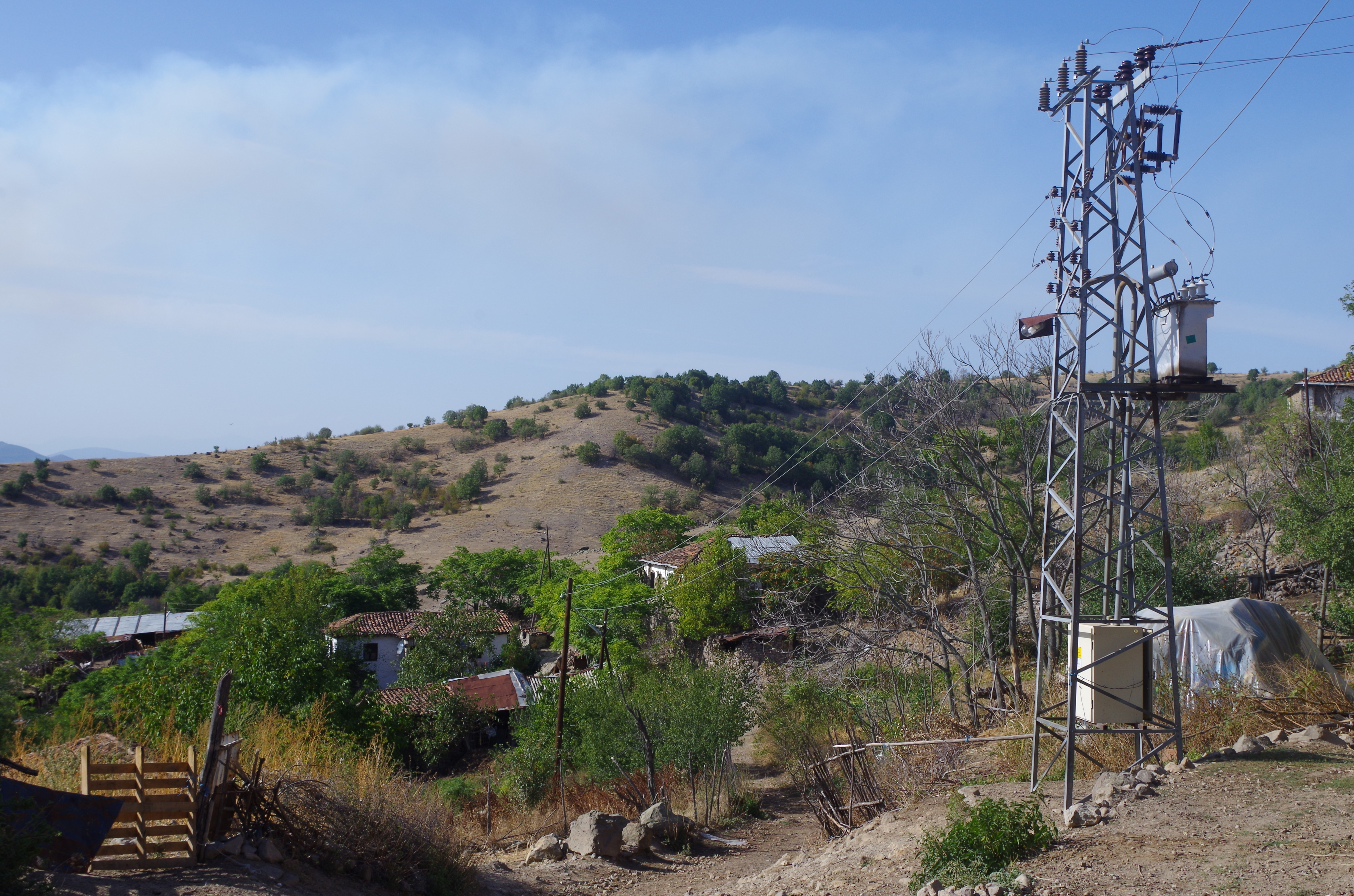 View of the village of Garnikovo